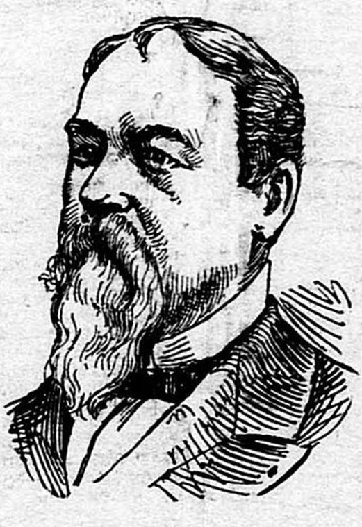 Joseph C. McKibbin (California Congressman)